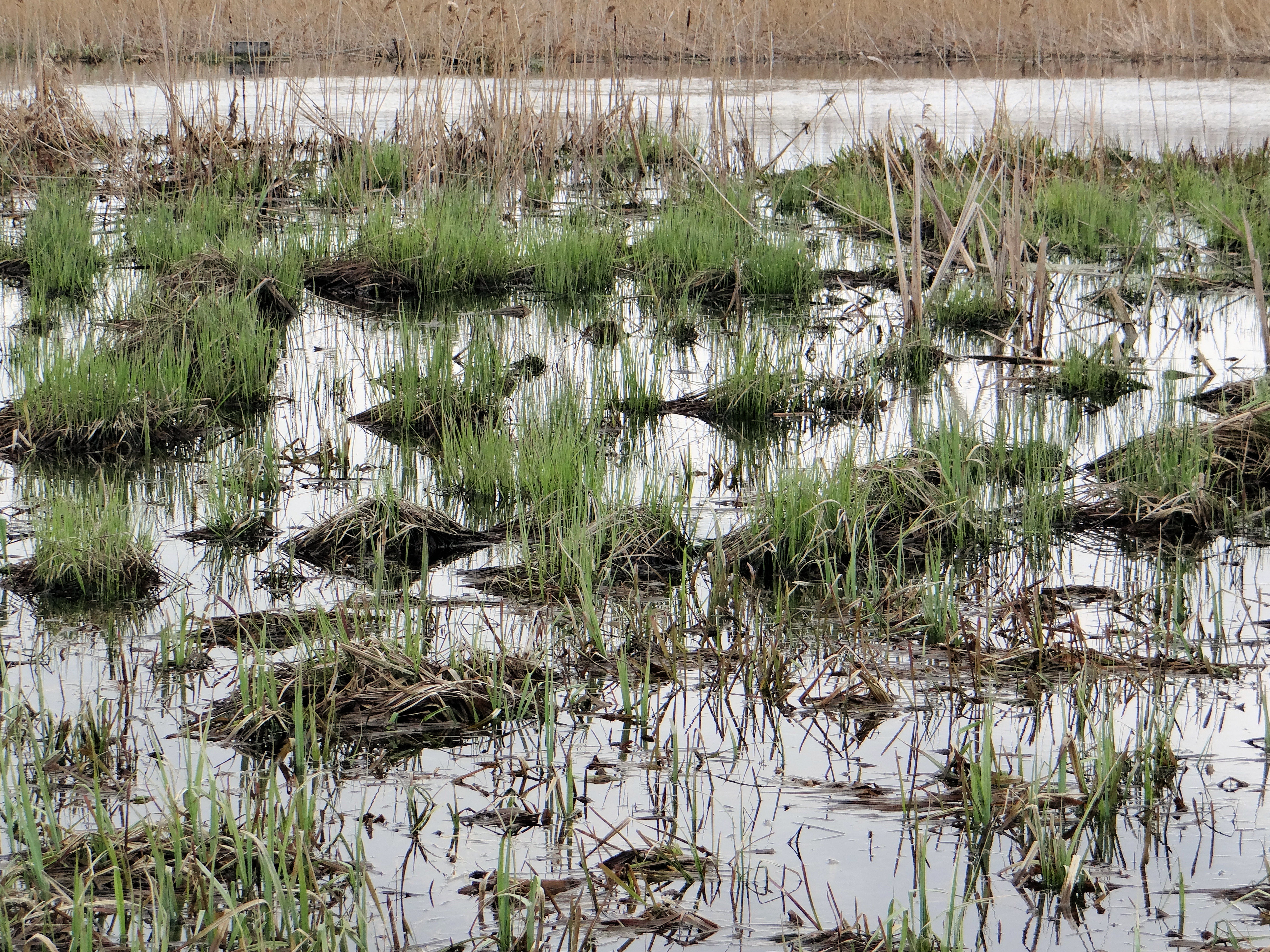 Narew Marshes in Kurowo